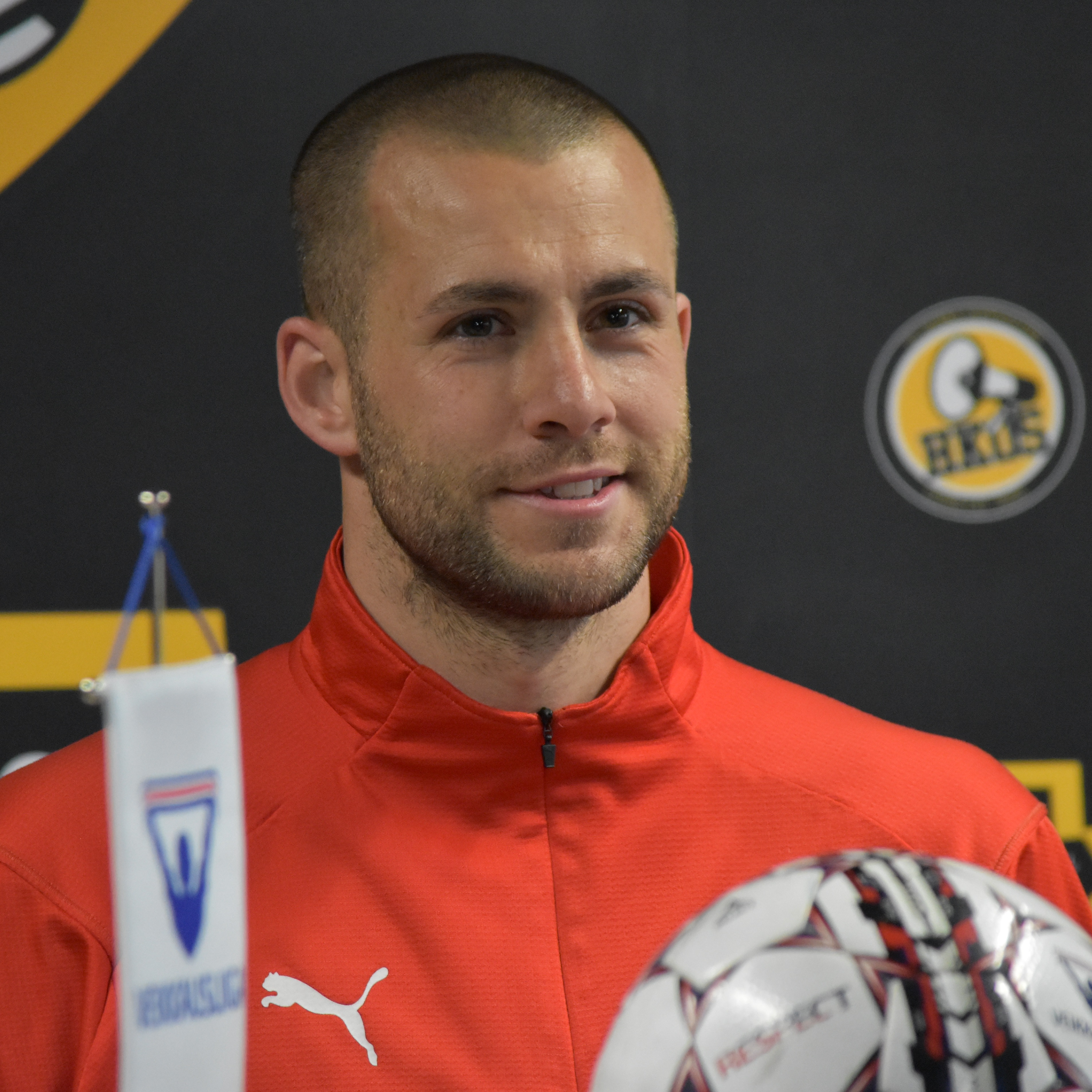 Association football goalkeeper Tim Murray (FC Honka)